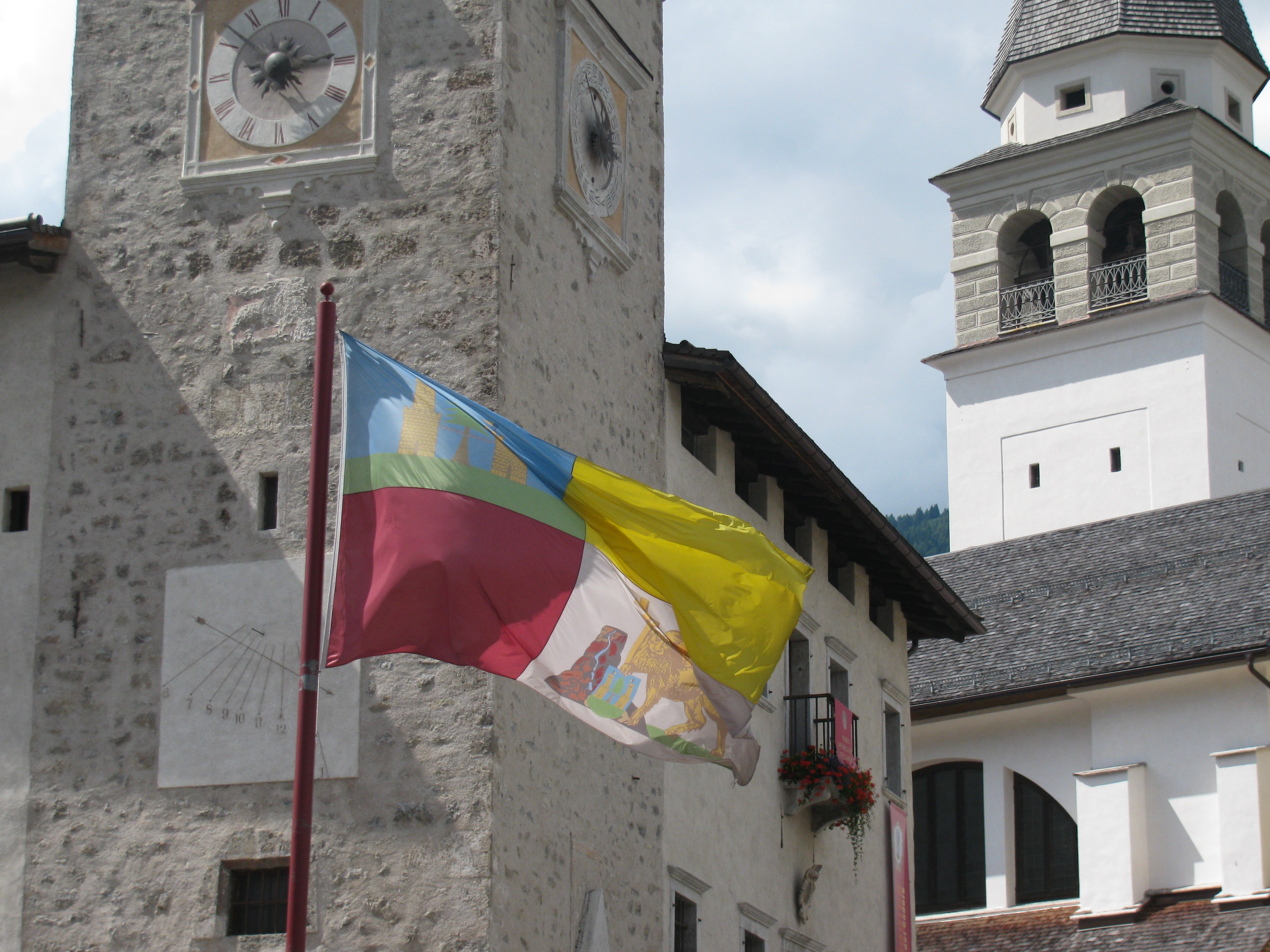 Flag of Cadore, Tiziano square, Pieve di Cadore (Italy)